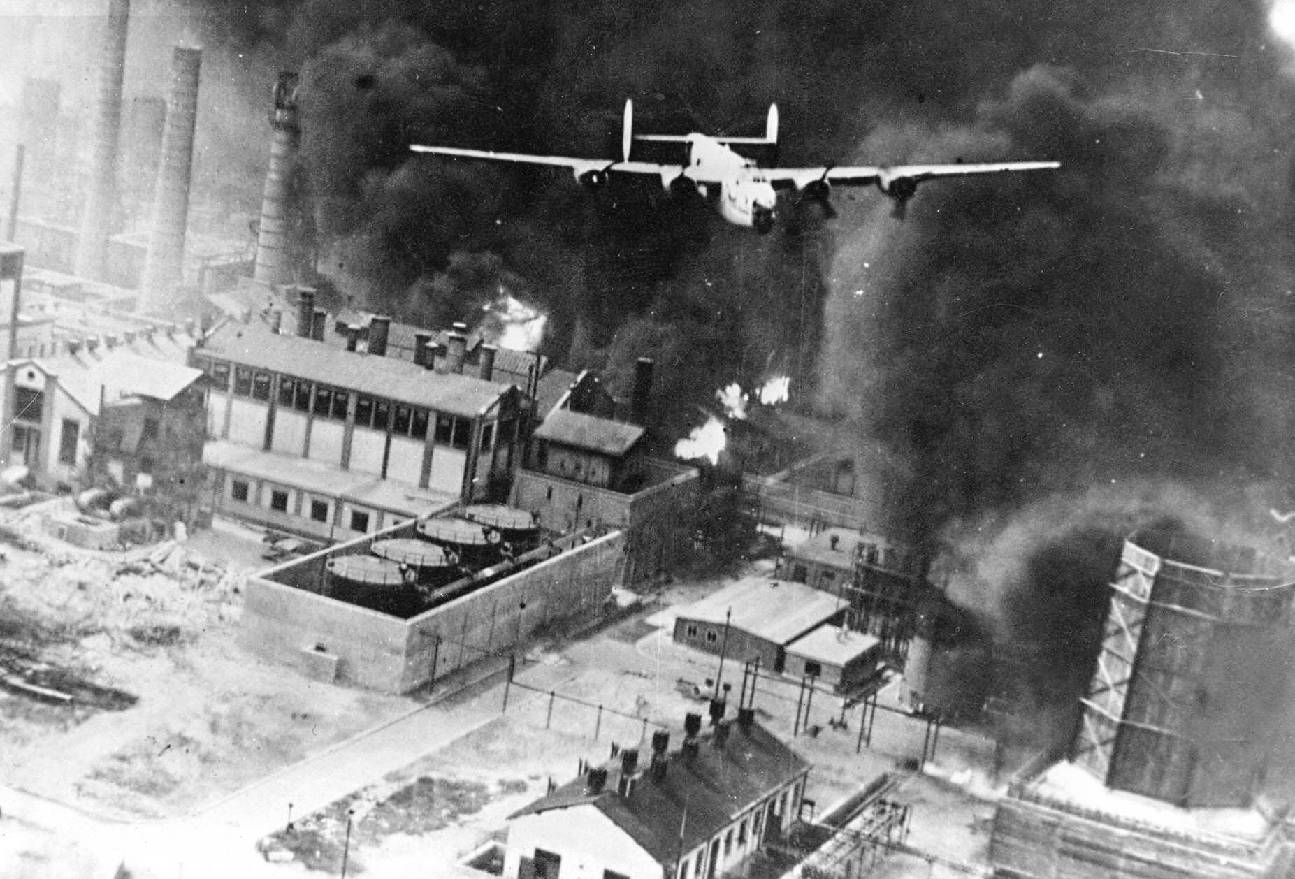 Air Raid Ploesti! A B-24 flying over a burning oil refinery at Ploesti, Rumania, 1 August 1943.